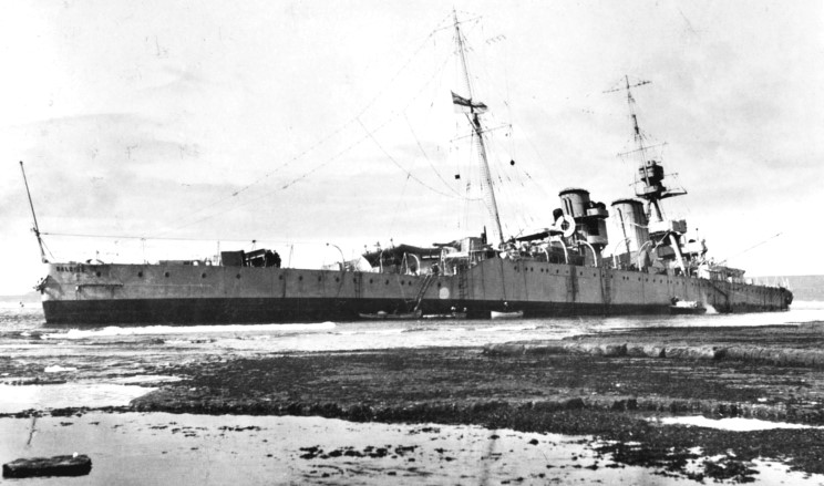 August 1922 : HMS Raleigh aground at Point Amour, Labrador cbc.ca